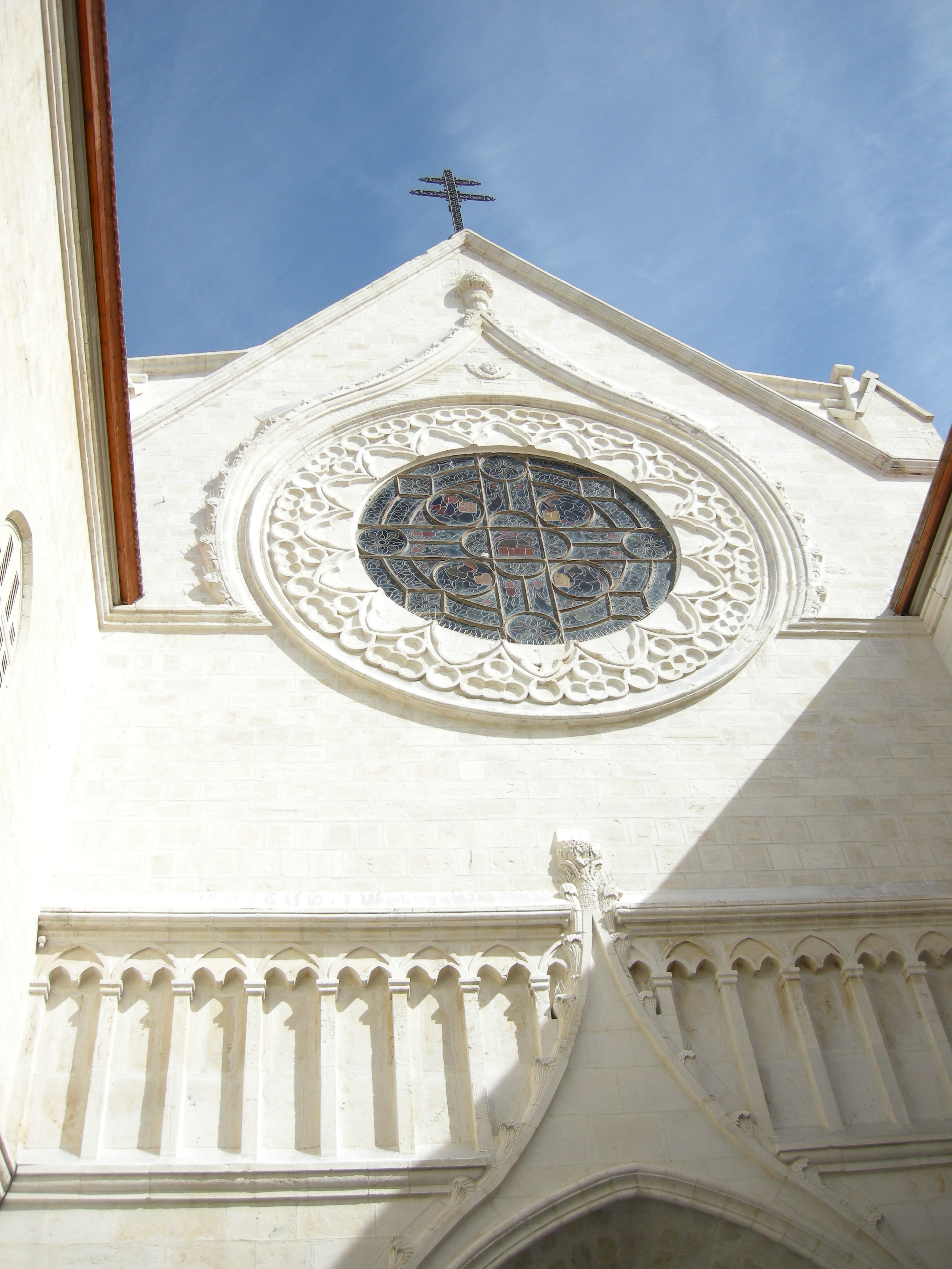 Visit in the Latin Patriarch of Jerusalem